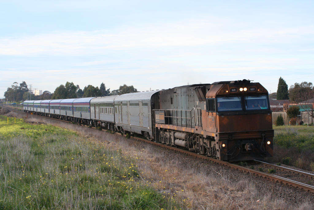 Refurbished 'The Overland' train headed for Adelaide, near Geelong, Victoria, Australia